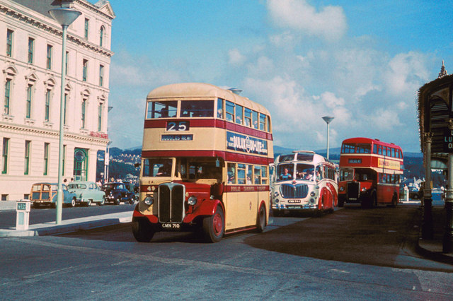 Two double-decker buses and a coach pictured in Douglas, Isle of Man. The cream bus in the lead belongs to Douglas Corporation. It's their bus 49 (reg. CMN 710), a 1938 AEC Regent double-decker with Northern Counties highbridge (27 upstair, 25 down) bodywork. It was withdrawn and scrapped in 1964. In the middle is an unidentified Duple Vega bodied single deckercoach. At the rear is an unidentified red bus of Isle of Man Road Services.